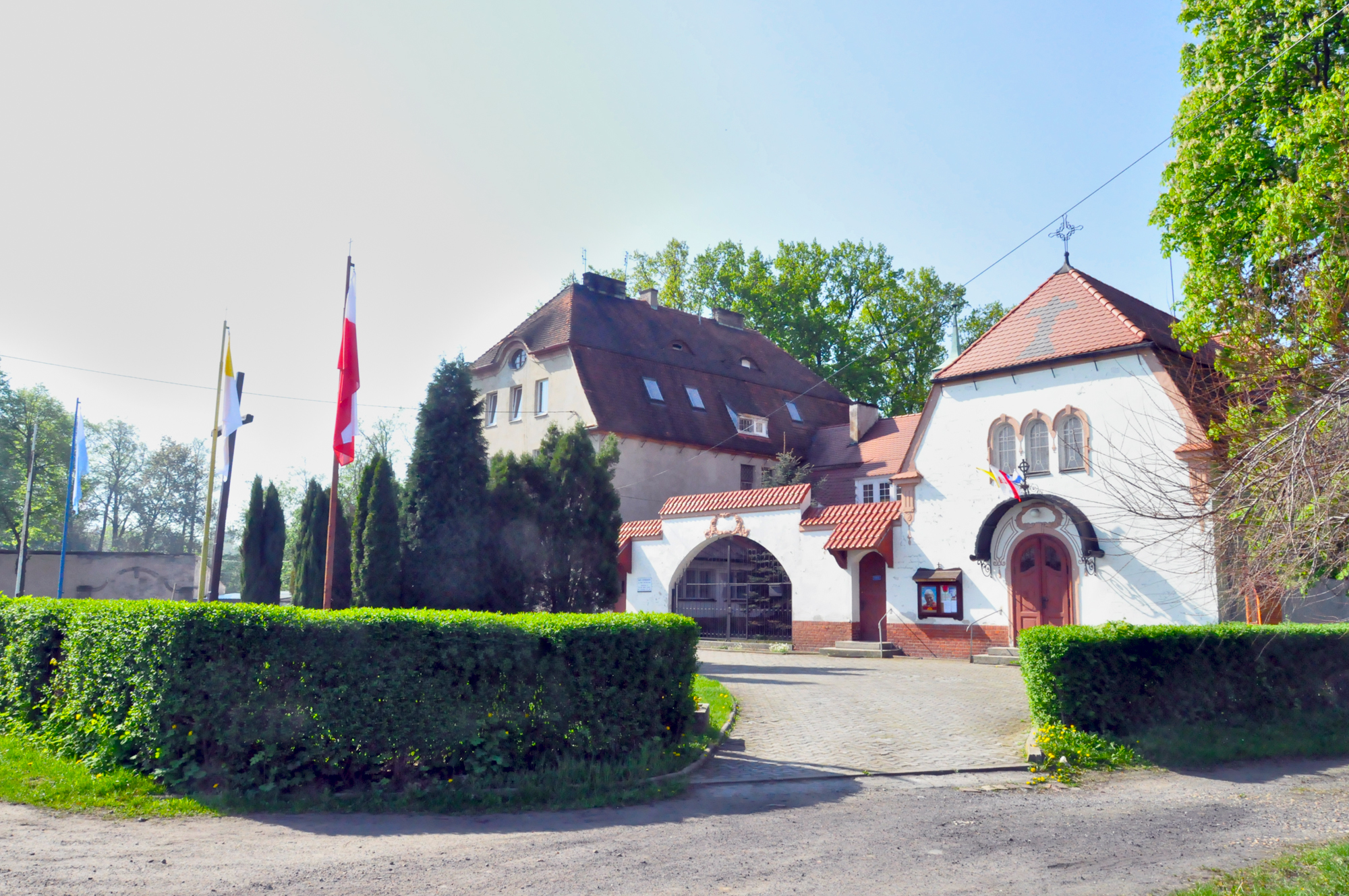 Roman Catholic Church